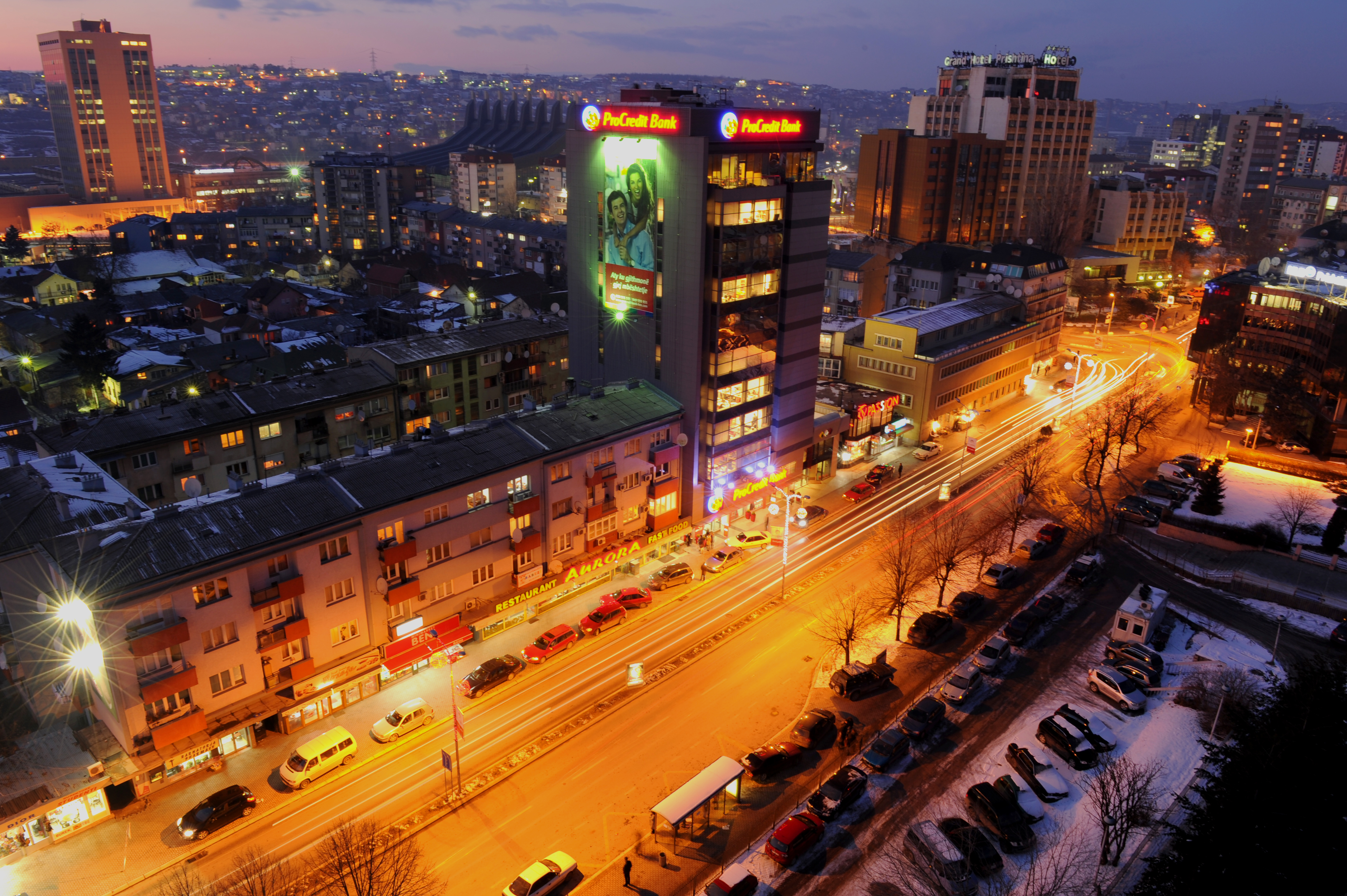 Prishtina perspektivë nga Radio Kosova 1